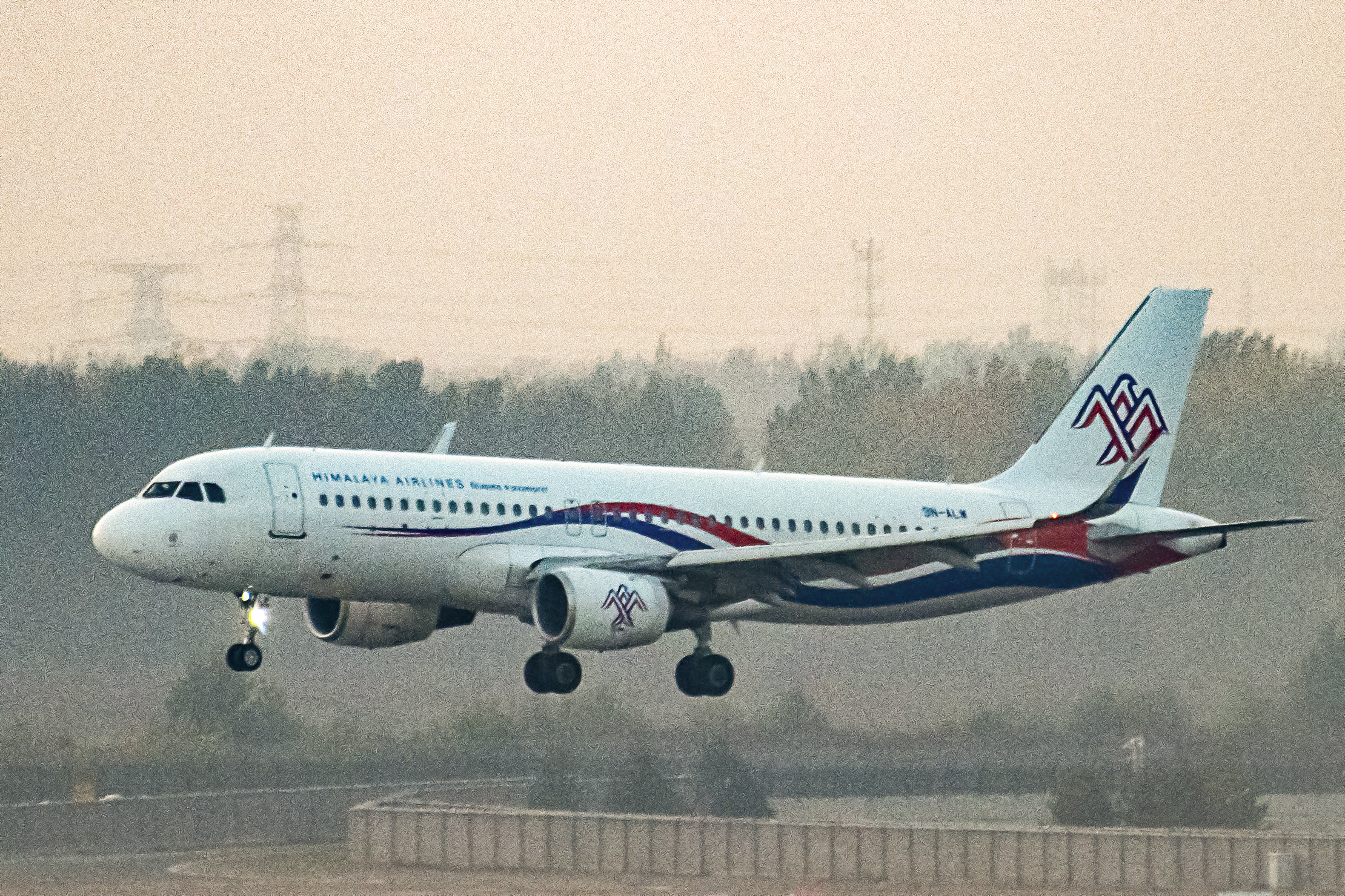 Himalaya 665 from Kathmandu. Another new visitor, this one from Nepal...